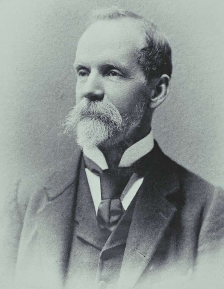 James Walker From the 1898 Australasian Federal Convention Album.